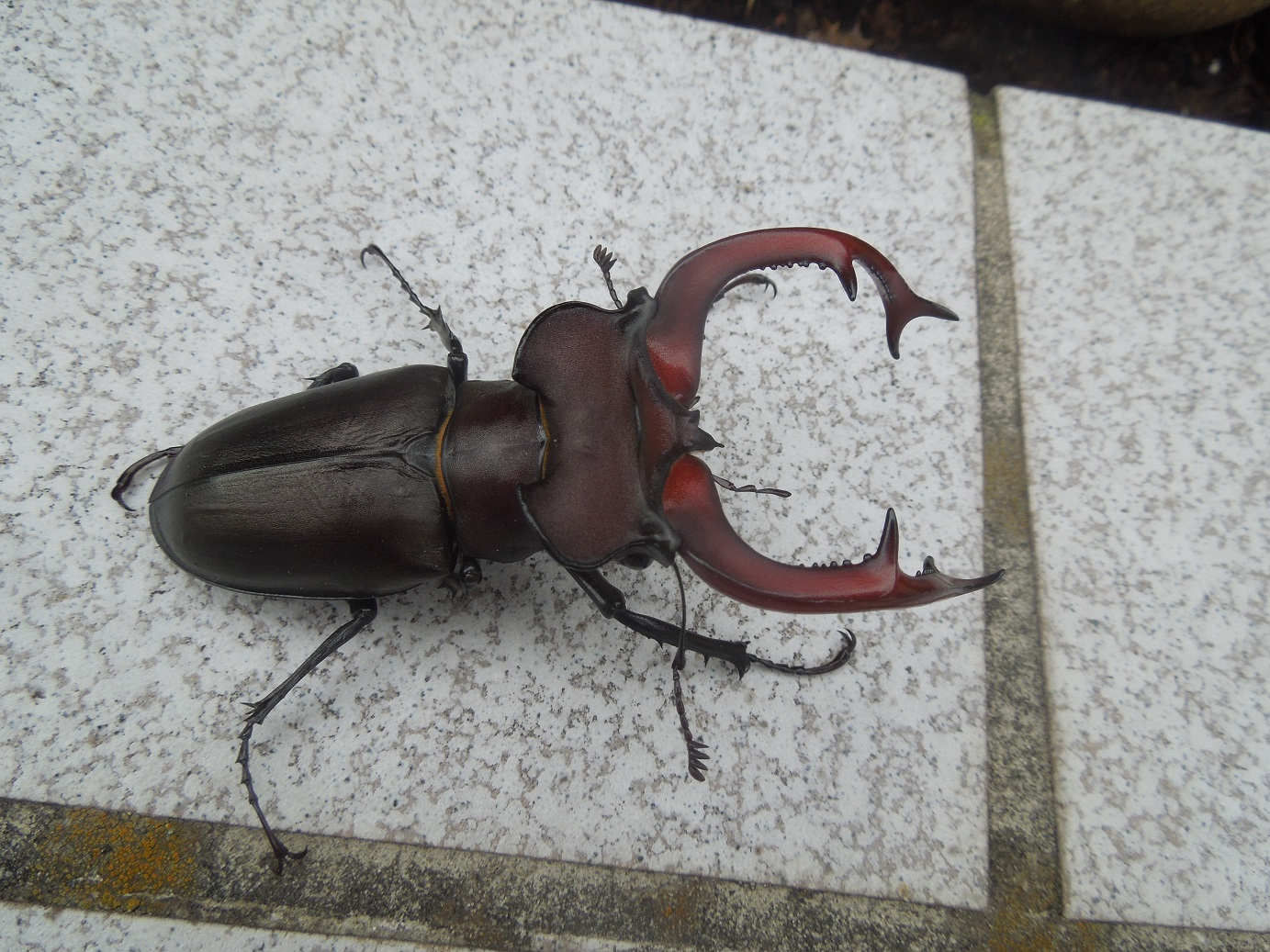 97 mm